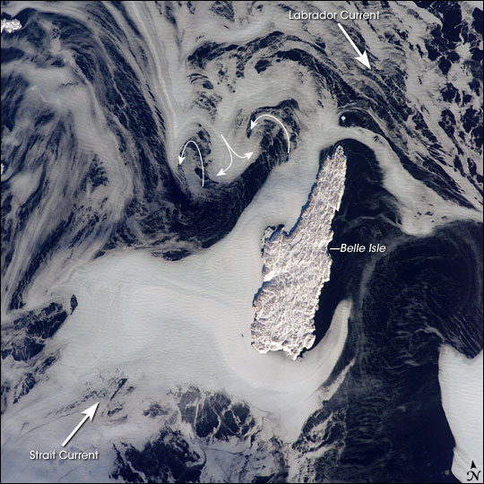 Annotated astronaut photo of Belle Isle, Newfoundland and Labrador, Canada. Taken from the International Space Station.